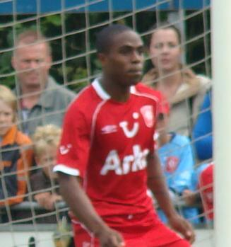 Image of the FC Twente-player Edson Braafheid